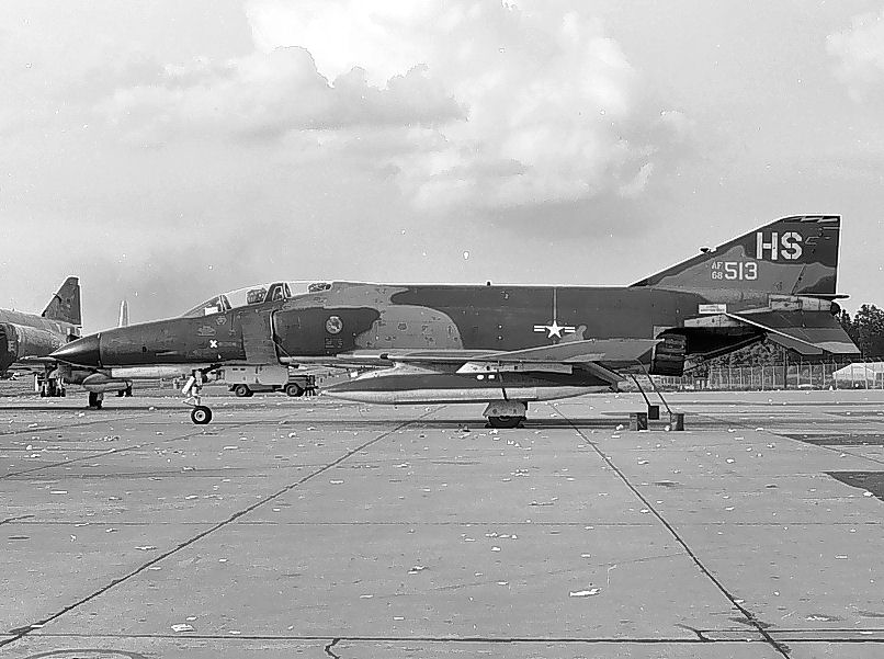 496th Tactical Fighter Squadron - McDonnell Douglas F-4E-41-MC Phantom - 68-0513